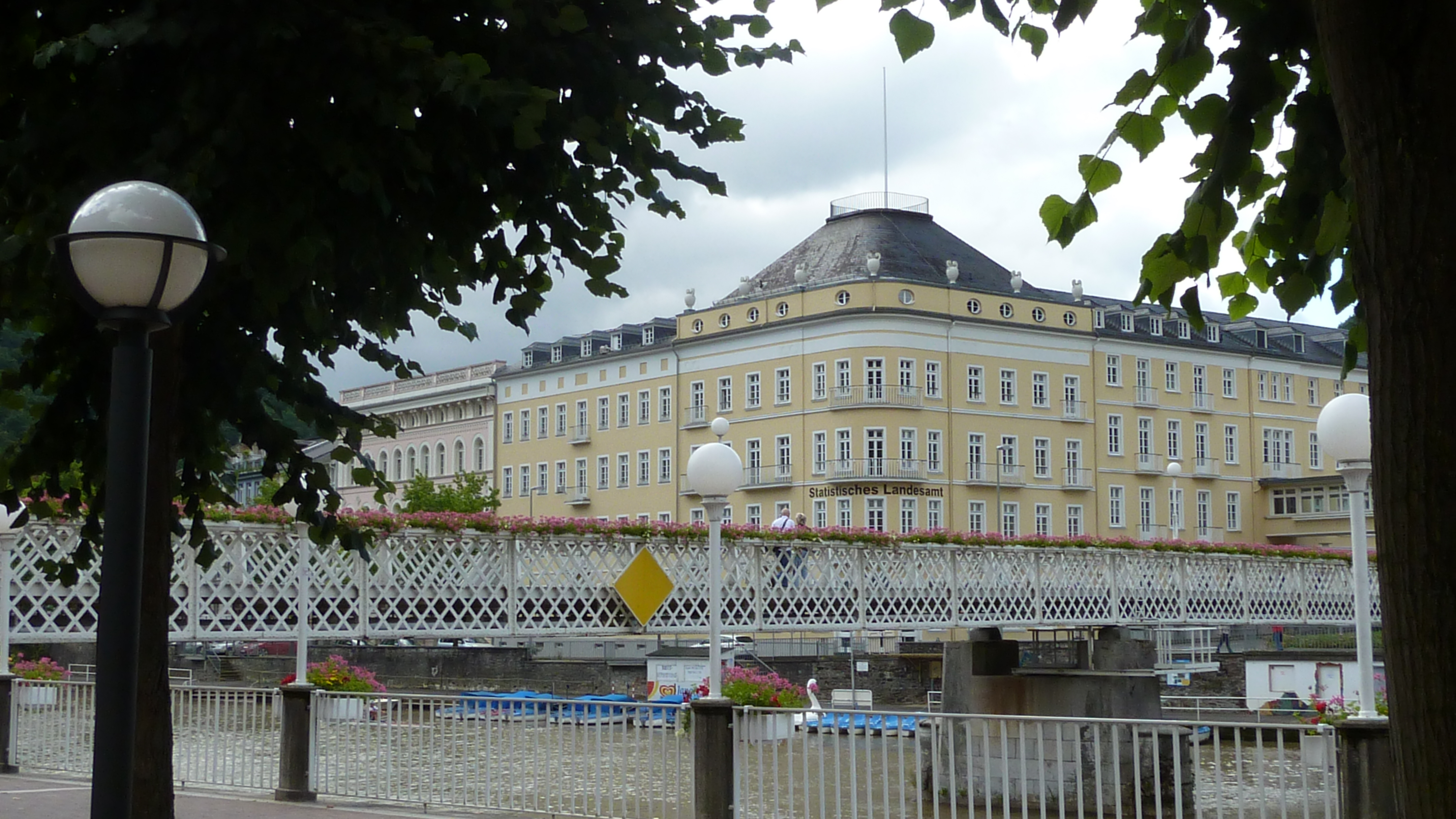 Statisches Landesamt Rheinland-Pfalz in Bad Ems; former Hotel Römerbad; Kurbrücke